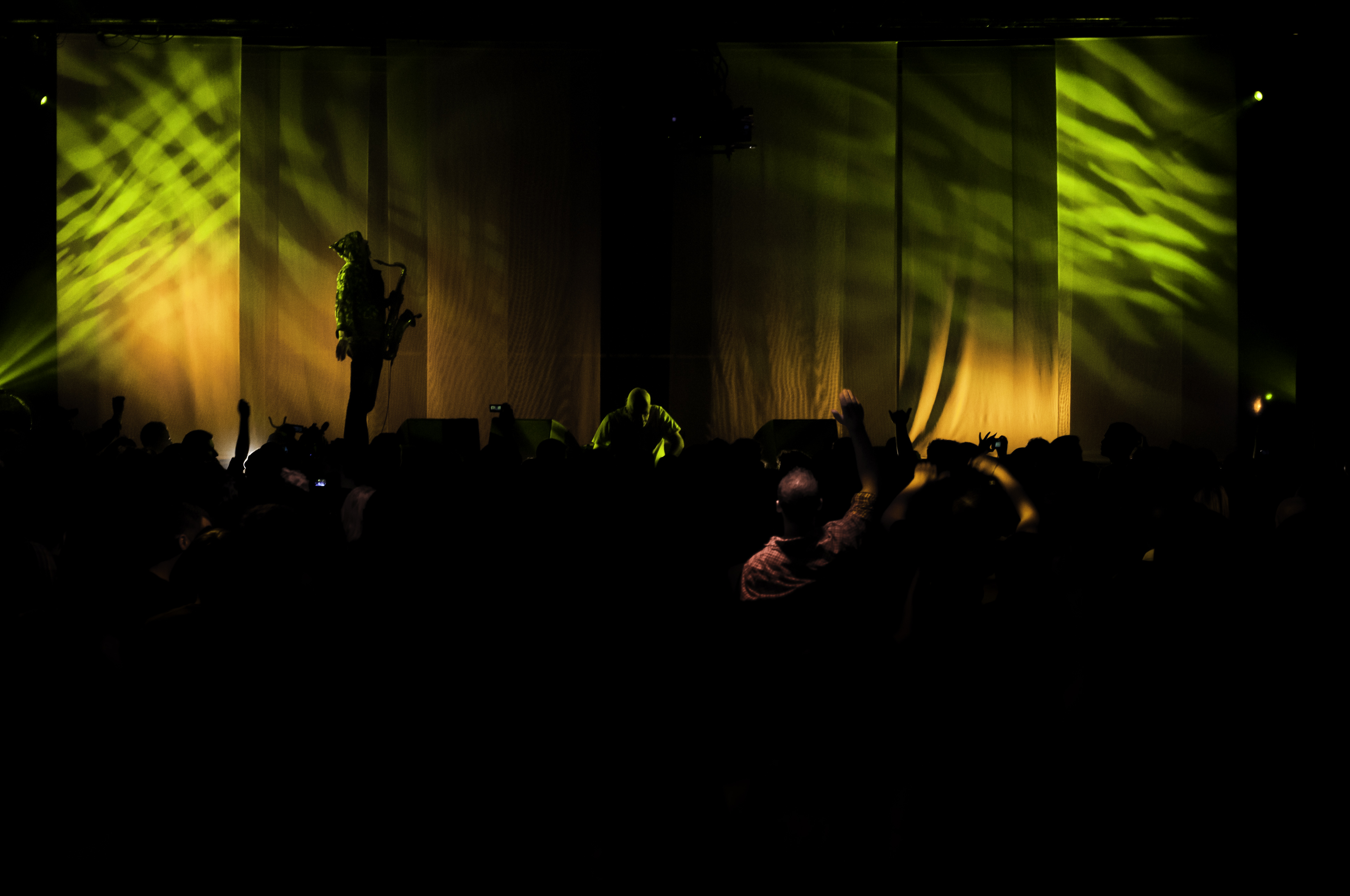 American band Detroit Grand Pubahs performing live.